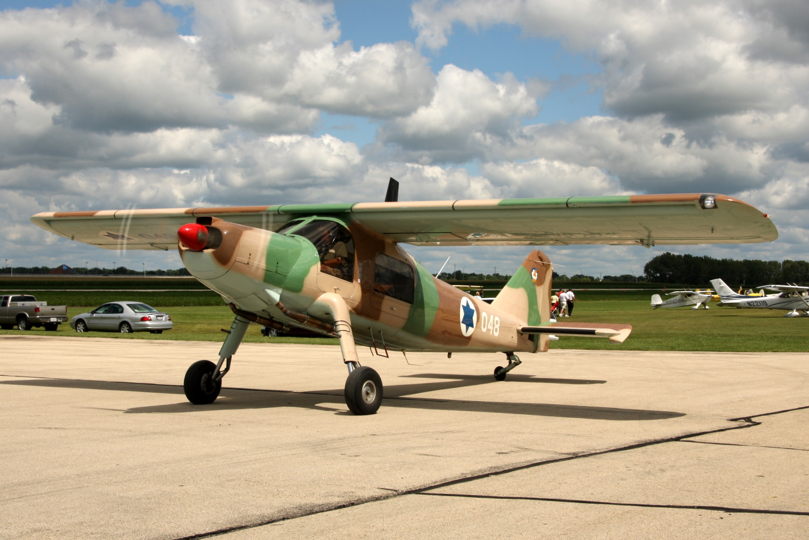 IMG_7751 (Rochelle Municipal Airport Fly-in 2009)